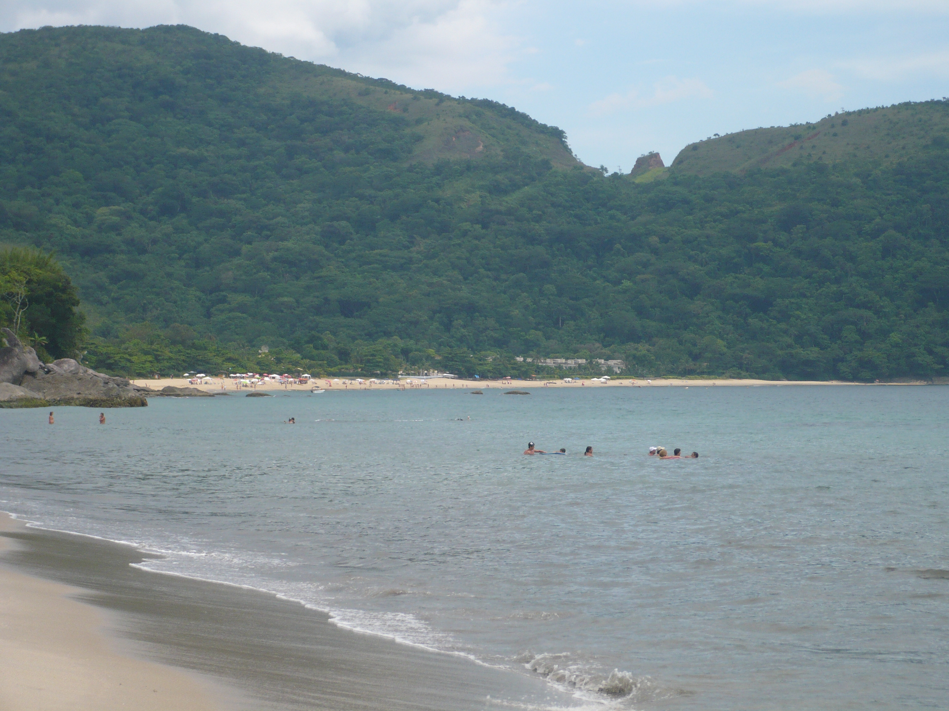 Toque-Toque Pequeno Beach as seen from Santiago Beach.